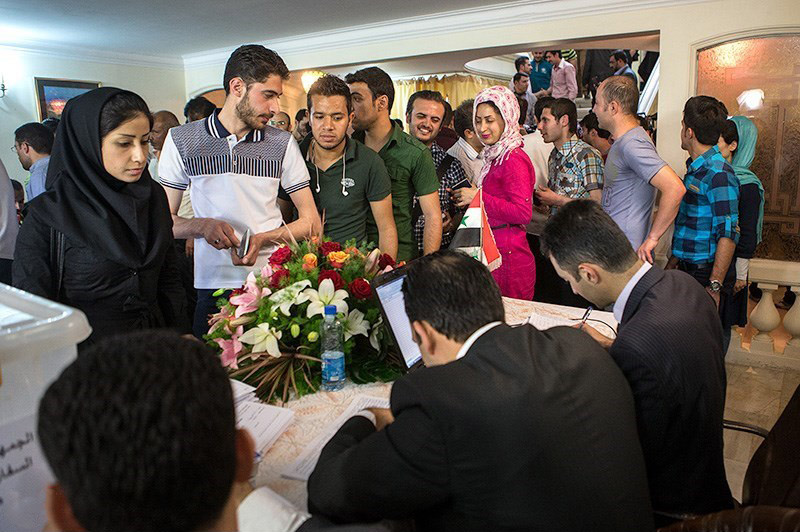 Syrian expatriates in Iran, cast their ballot in Syrian embassy in Tehran.